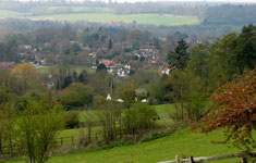 Shamley Green, Surrey